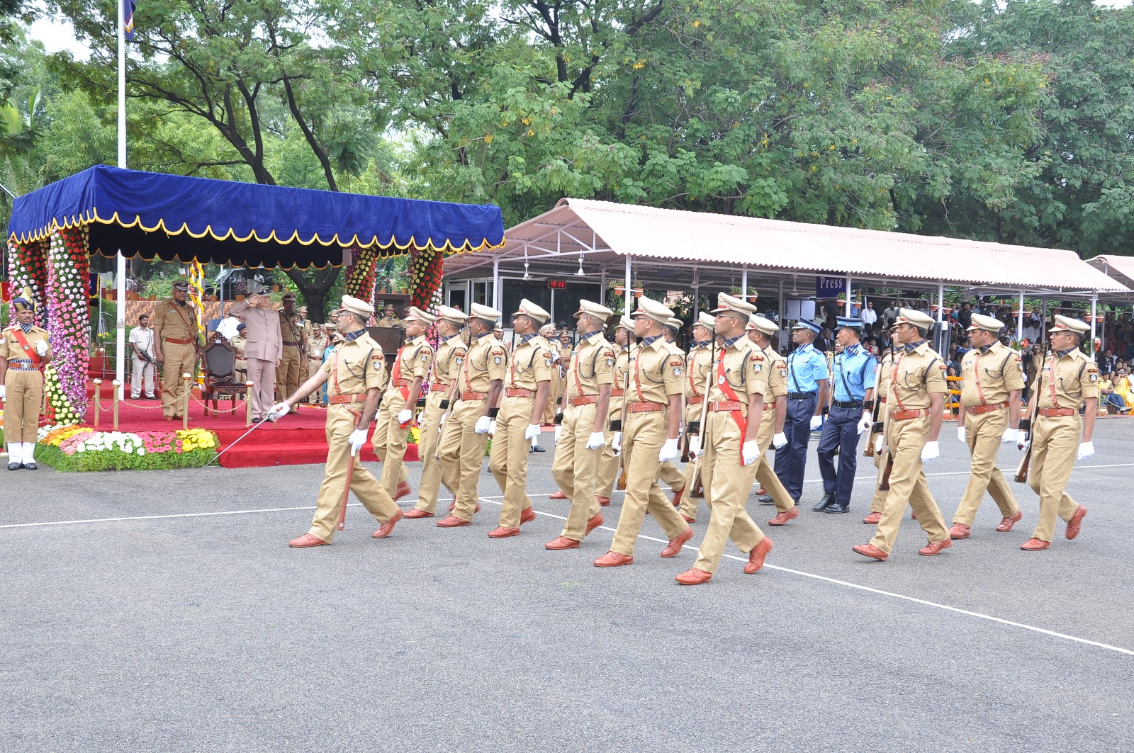 Passing Out Parred SVPNPA